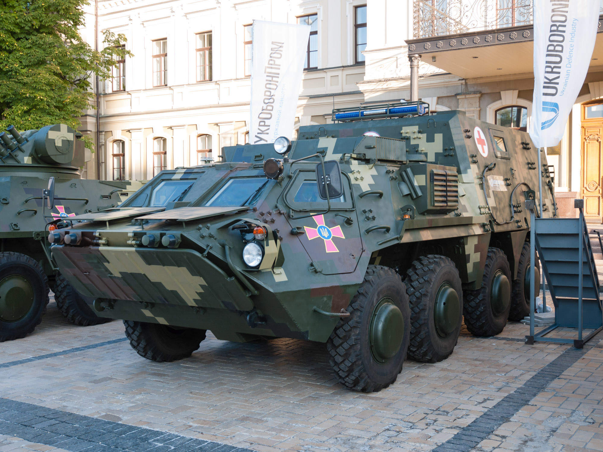 BMM-4 armored evac, Kyiv, Ukraine, 2018